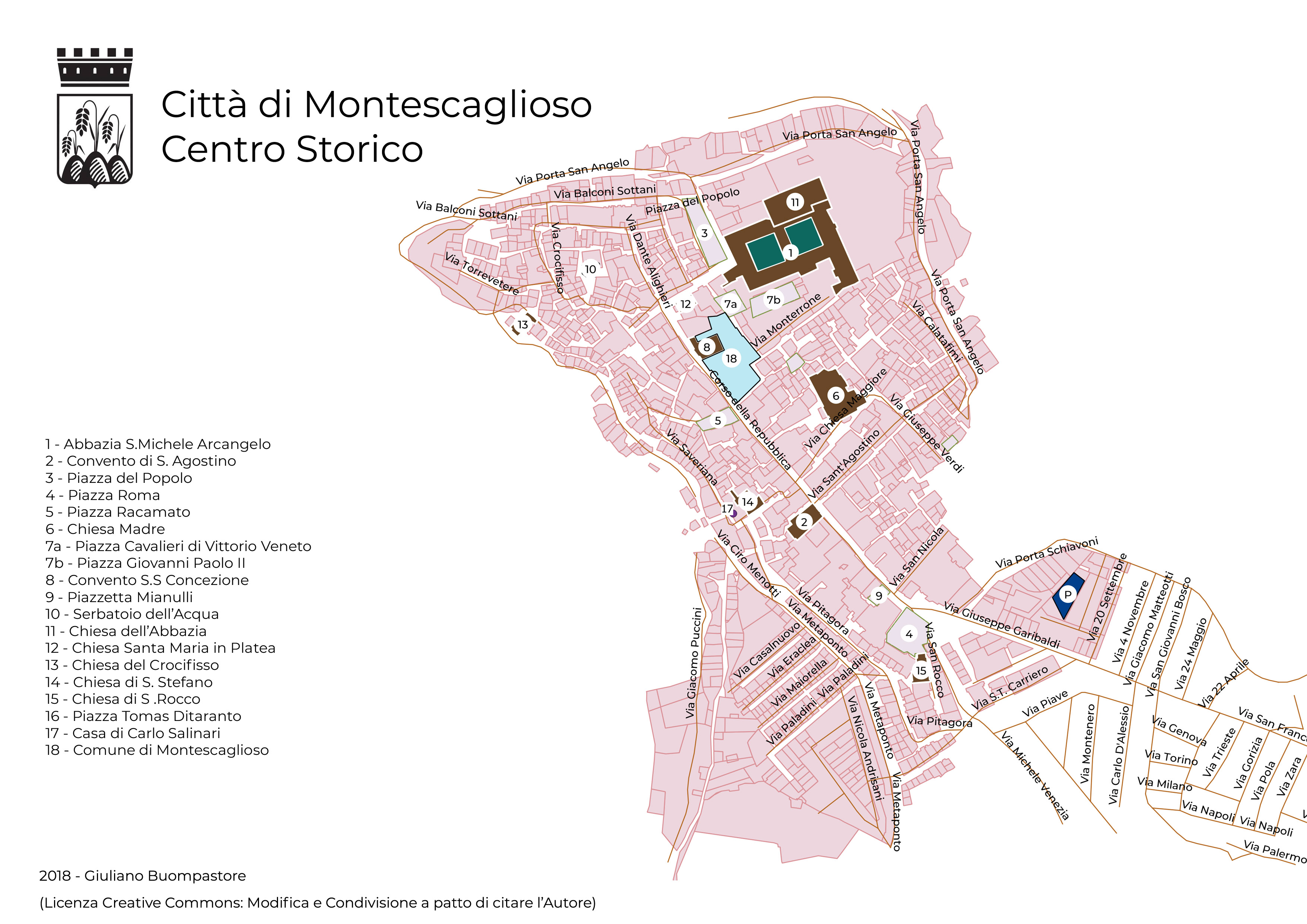 maps of old montescaglioso